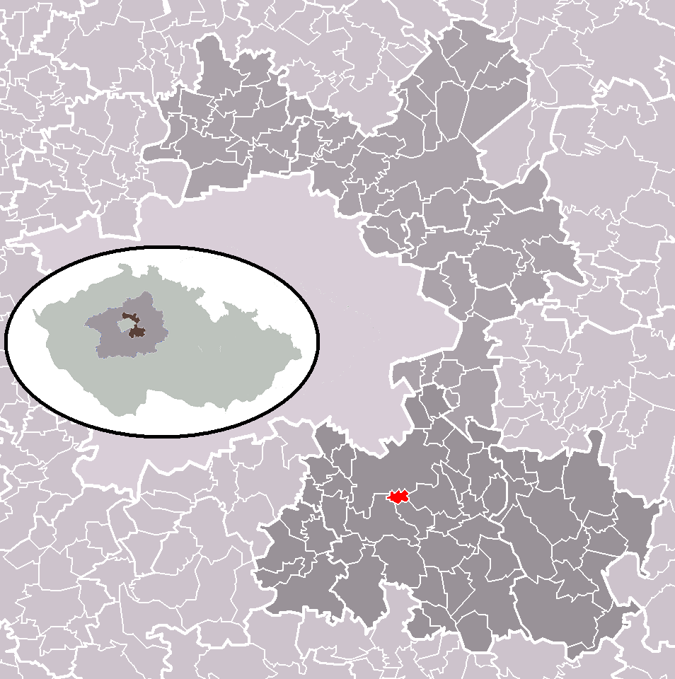 Location of Světice municipality within Prague-East District and administrative area of Říčany as a Municipality with Extended Competence.